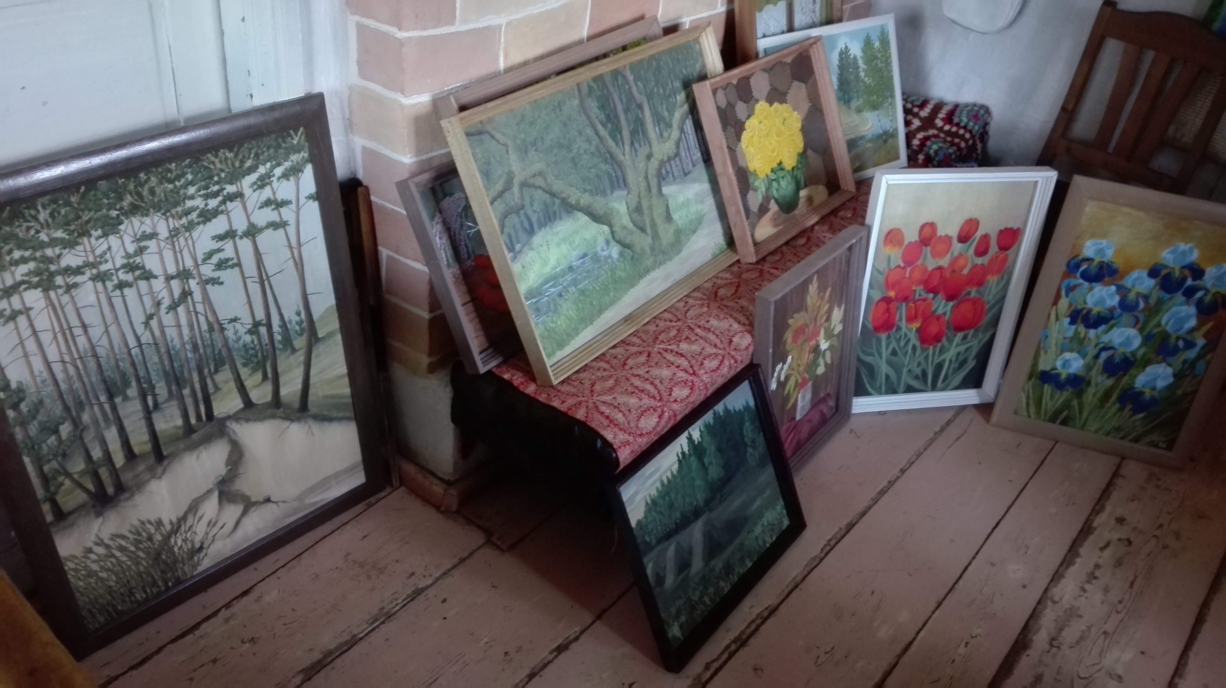 Painting of Irena Vilūtė